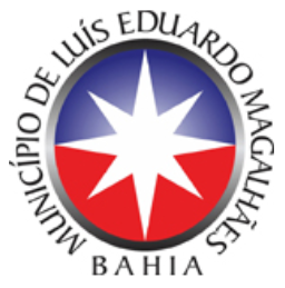 Brasão do Município de Luís Eduardo Magalhães-BA